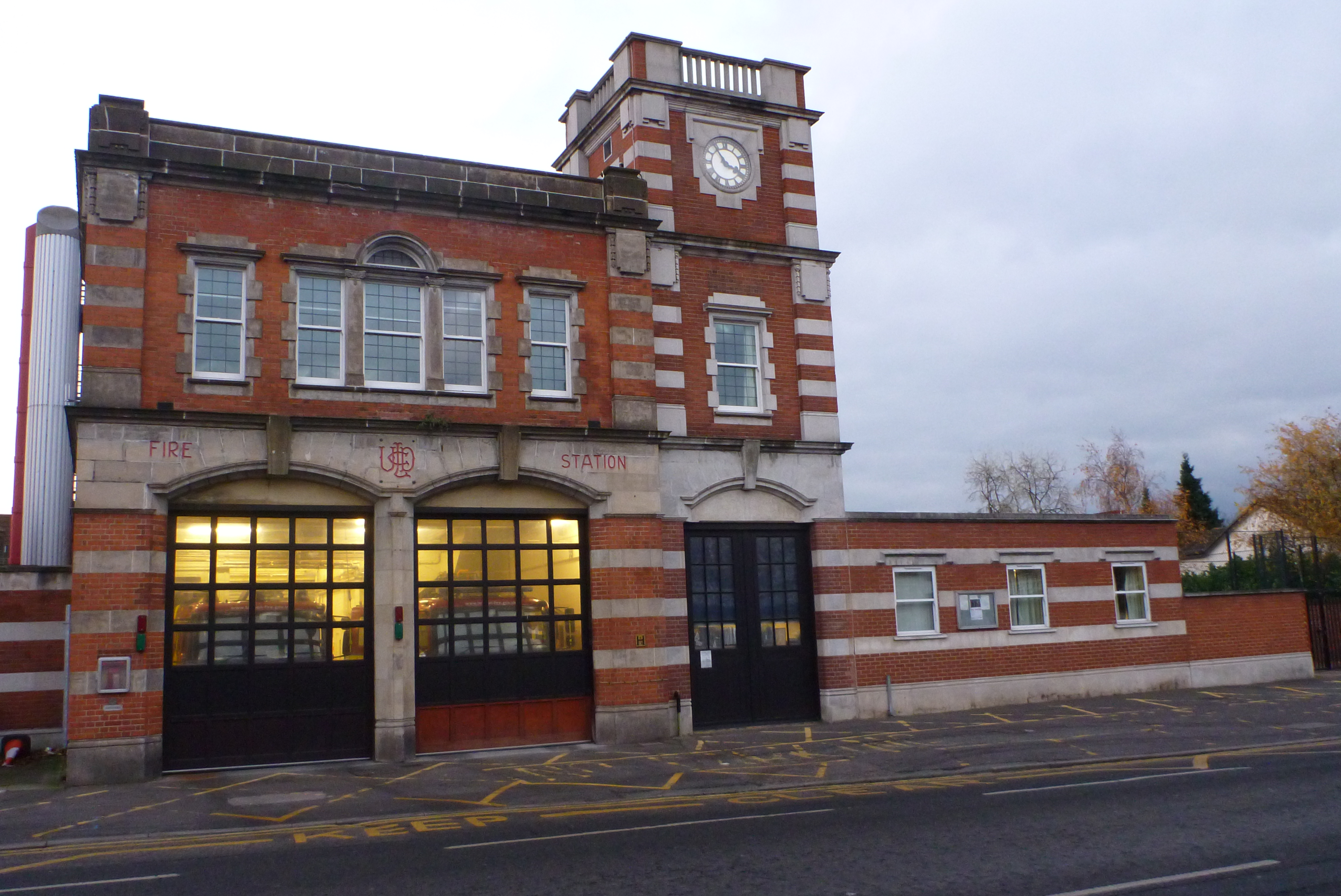 466 High Road, Leytonstone, E11 3HN. Planning permission granted to demolish this building, November 2012.